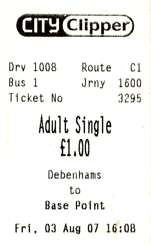 A scan of a ticket from the now defunct bus operator City Clipper